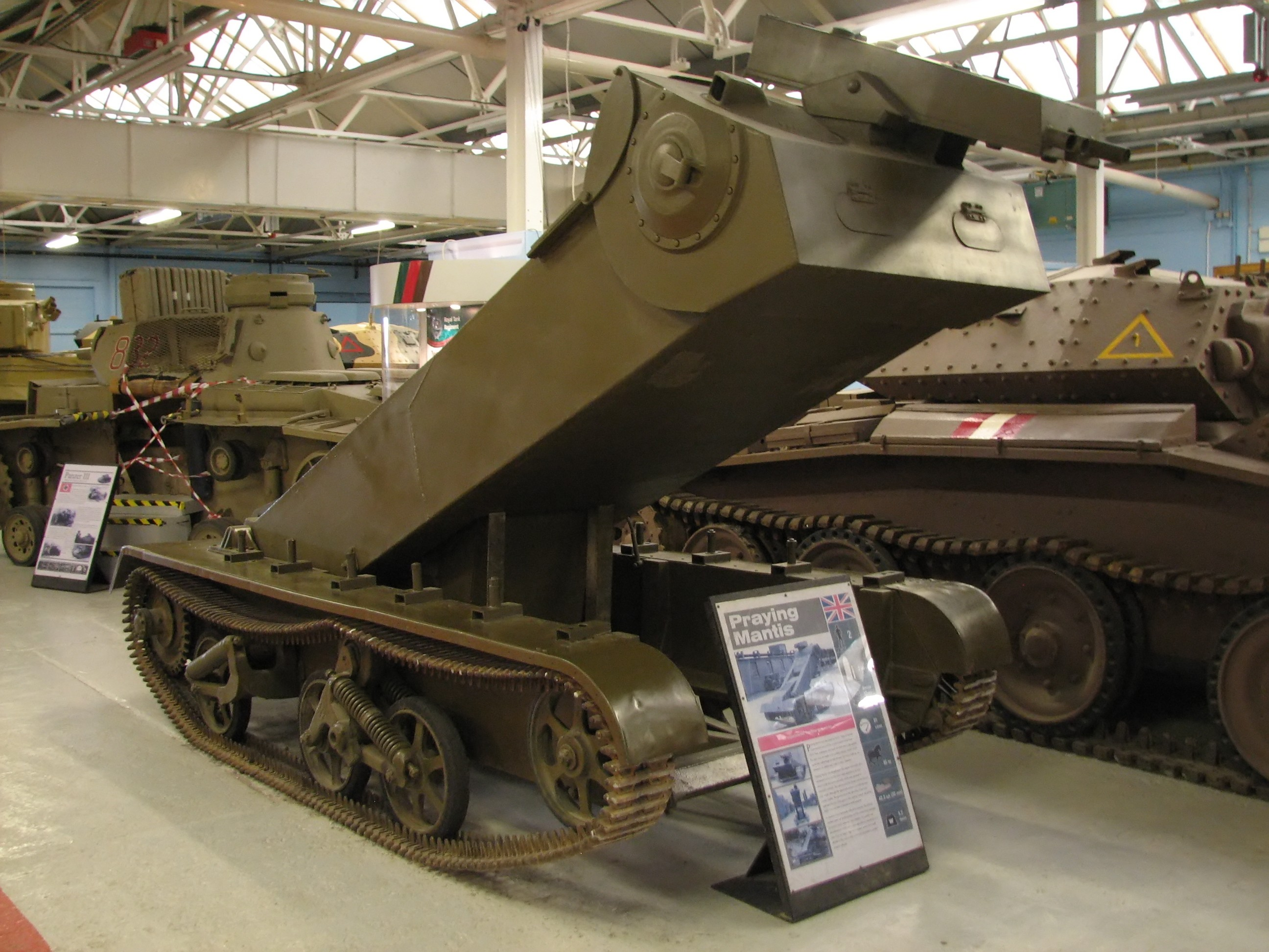 British Universal Carrier Praying Mantis prototype at Bovington Tank Museum